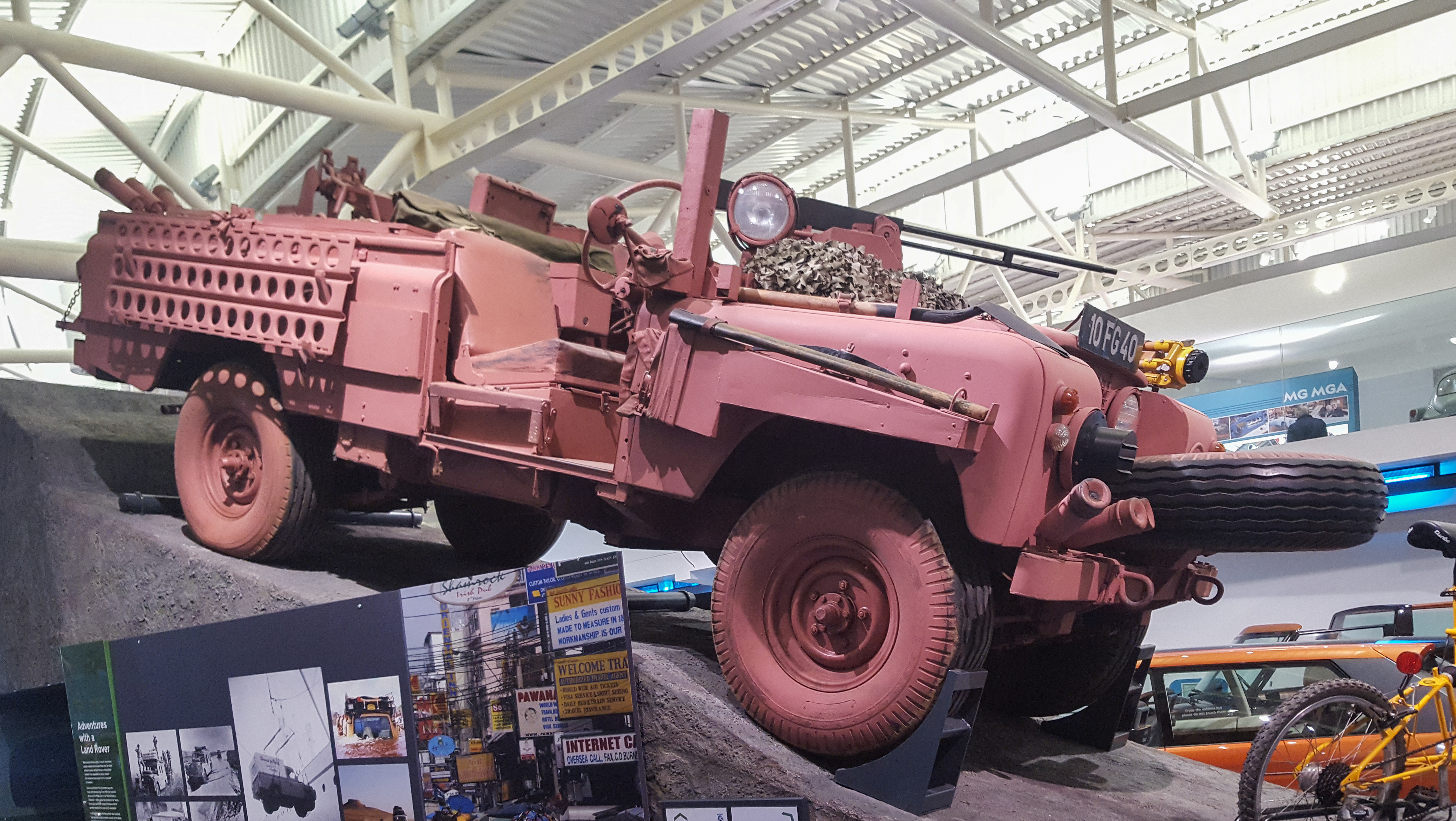 A 2004 Land Rover series IIa 'Pink Panther' desert car made for the SAS. This vehicle is now kept at the British Motor Museum, Gaydon, UK.